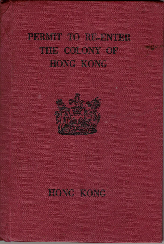 Cover page of Permit to re-entry the Colony of Hong Kong, issued on the 1960s.